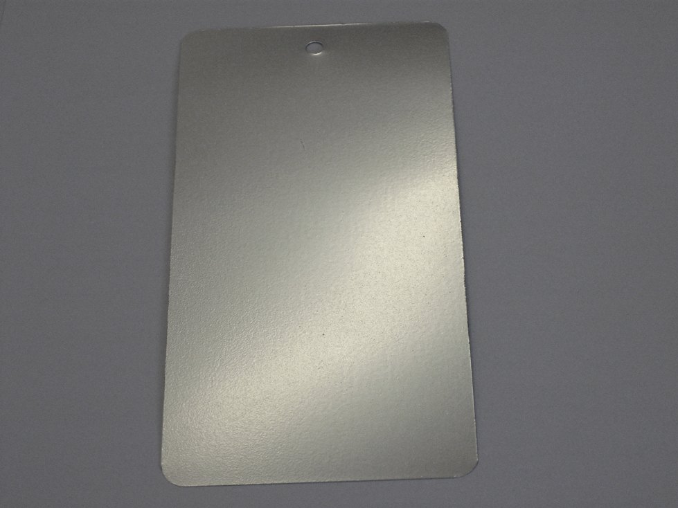 Metallic lacquer aluminium